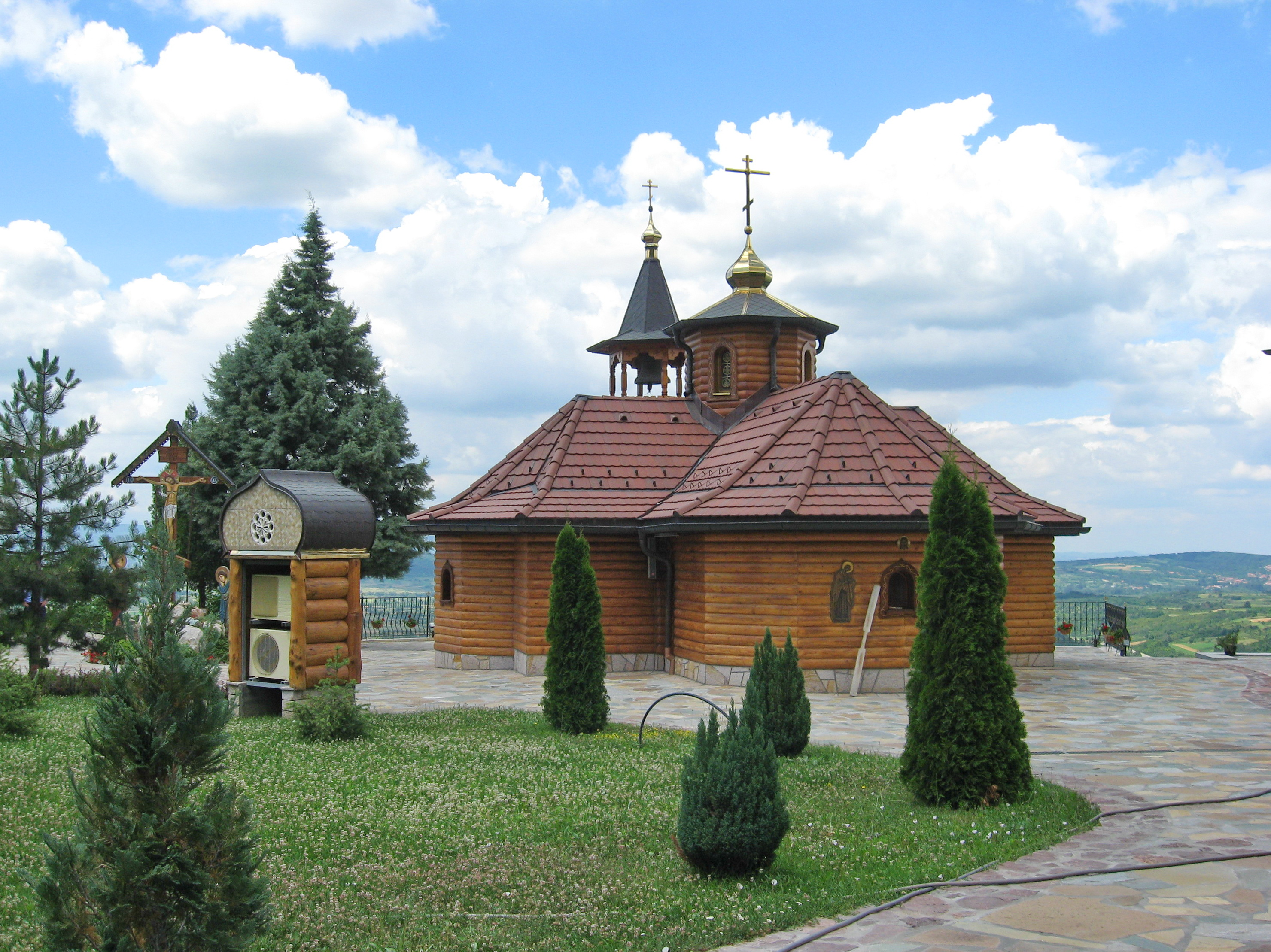 Lešje Monastery